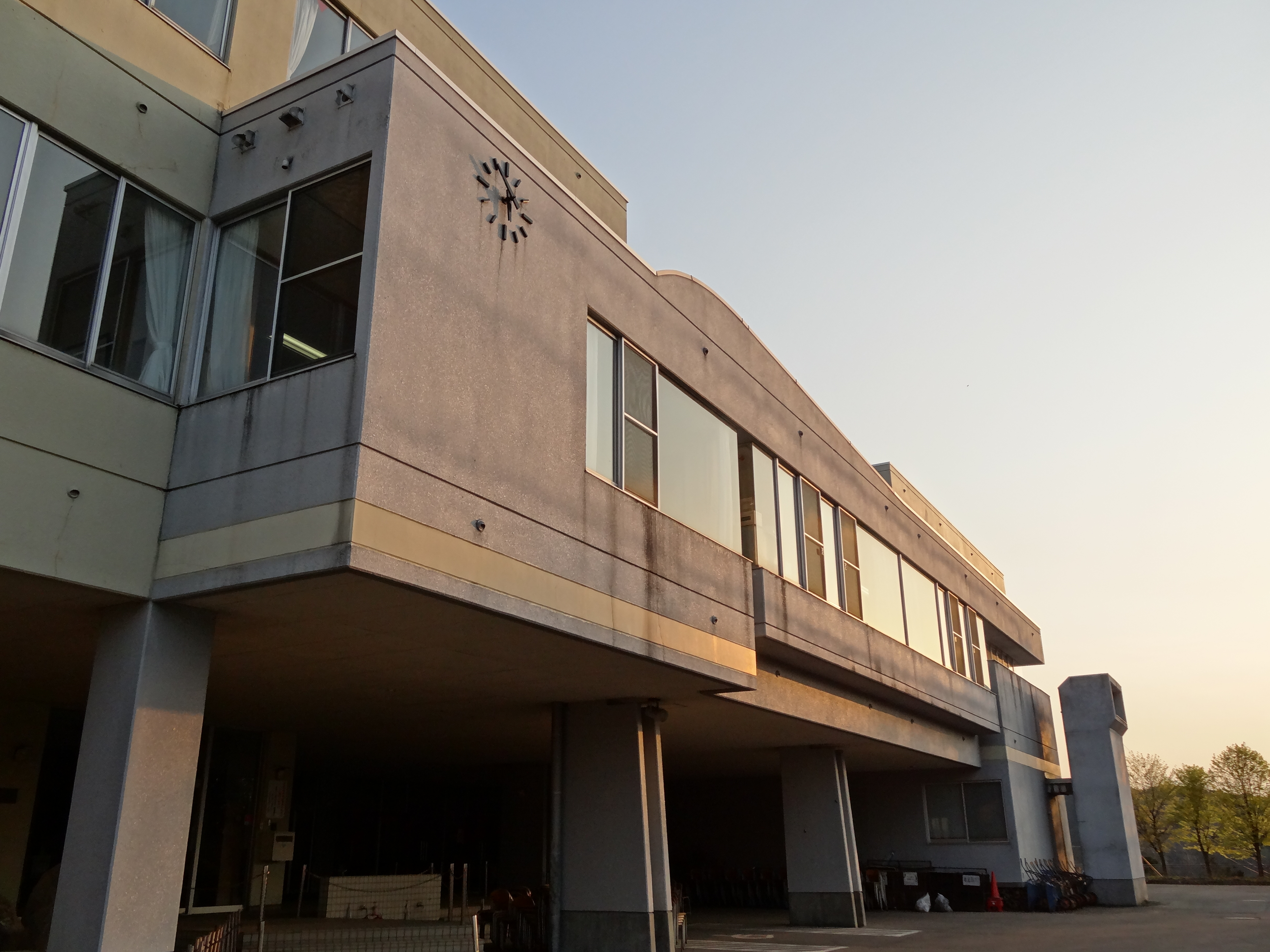 Kazuno Municipal Hanawa Daiichi Junior High School